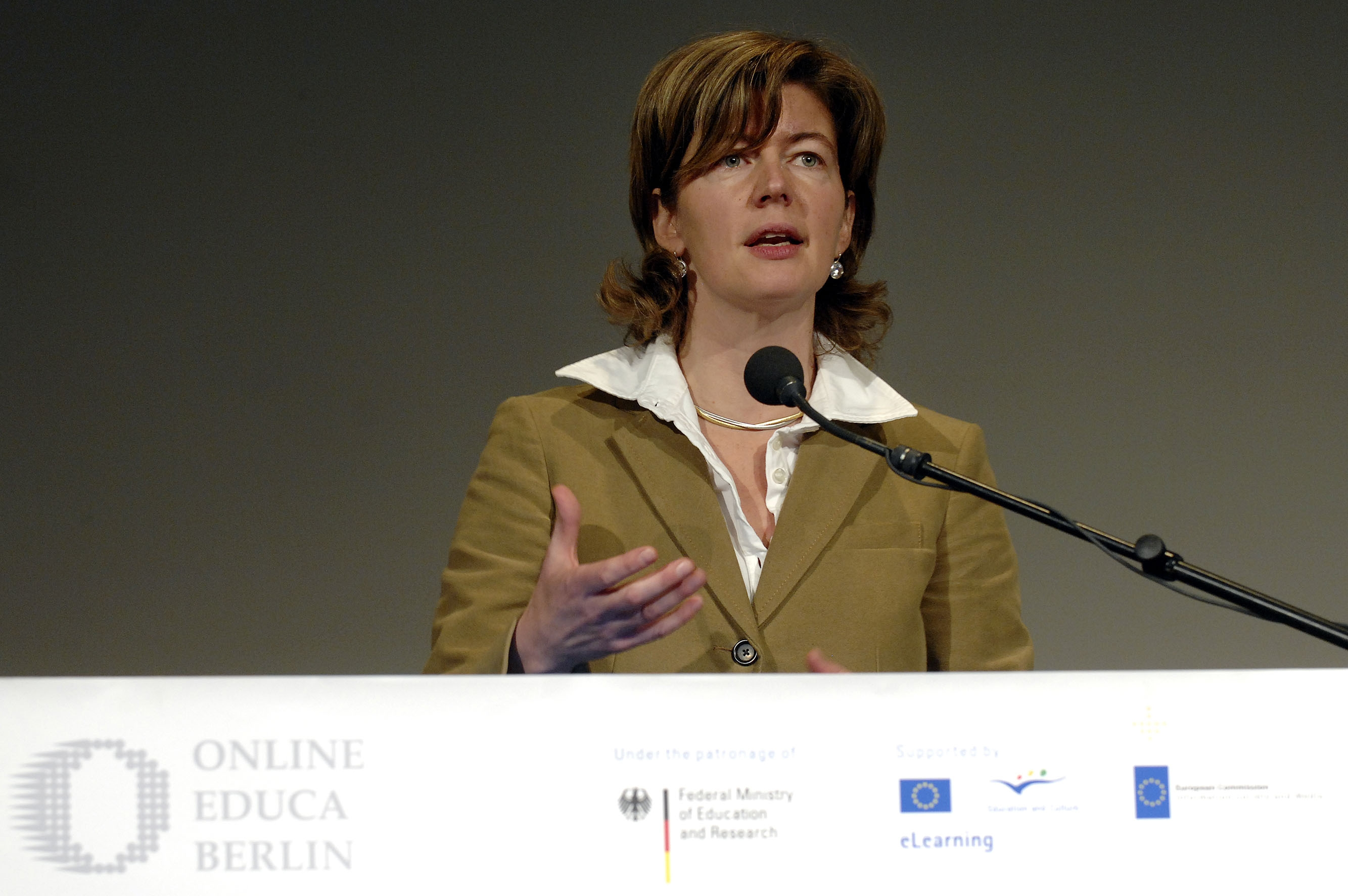 Online Educa Berlin 2007 - Opening Plenary, November 29, 2007, Patricia Ceysens